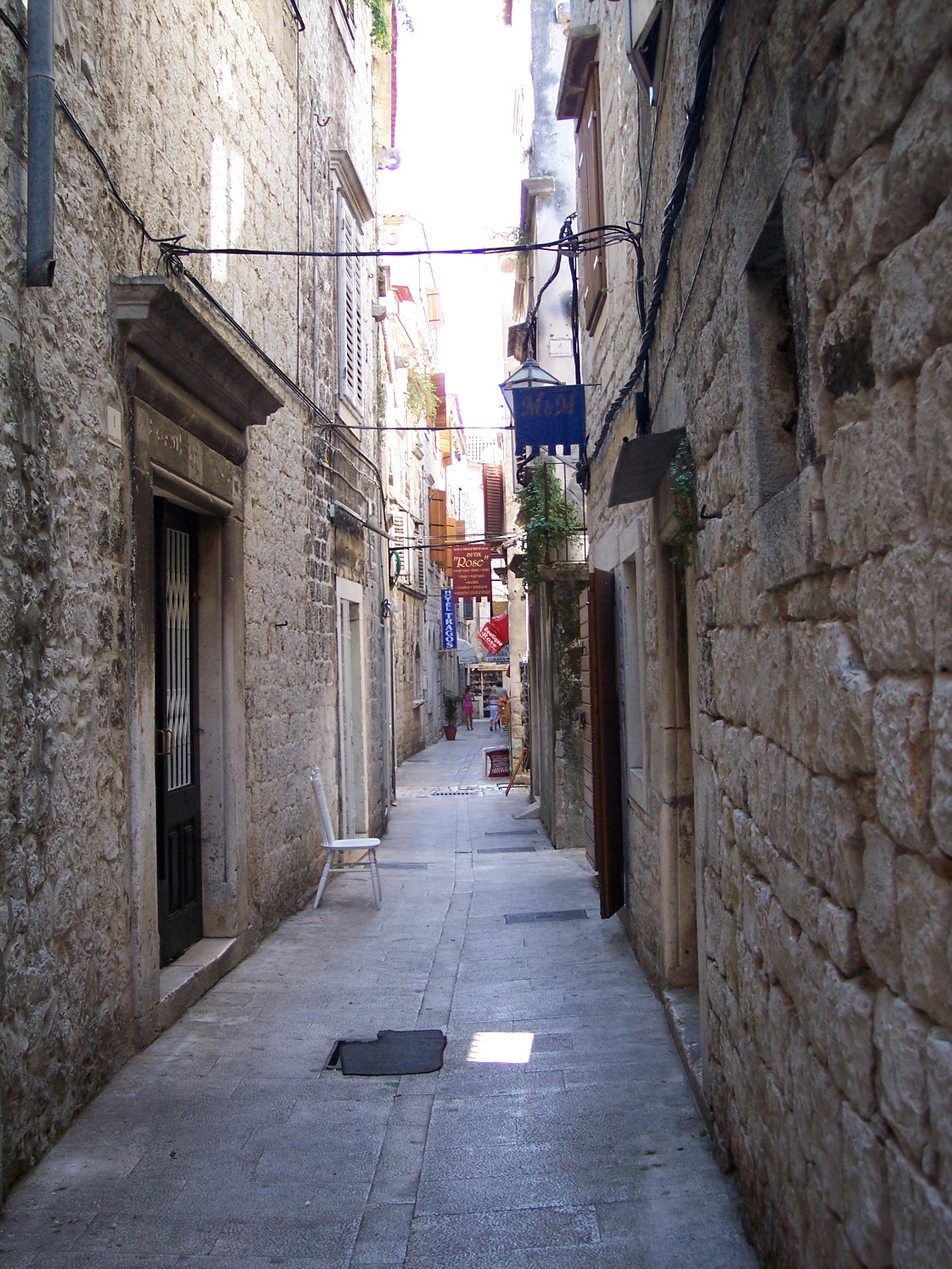 Trogir]